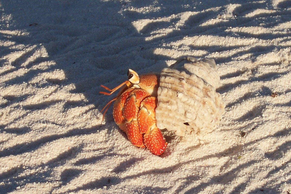 Coenobita perlatus on a coral sand beach of Europa island